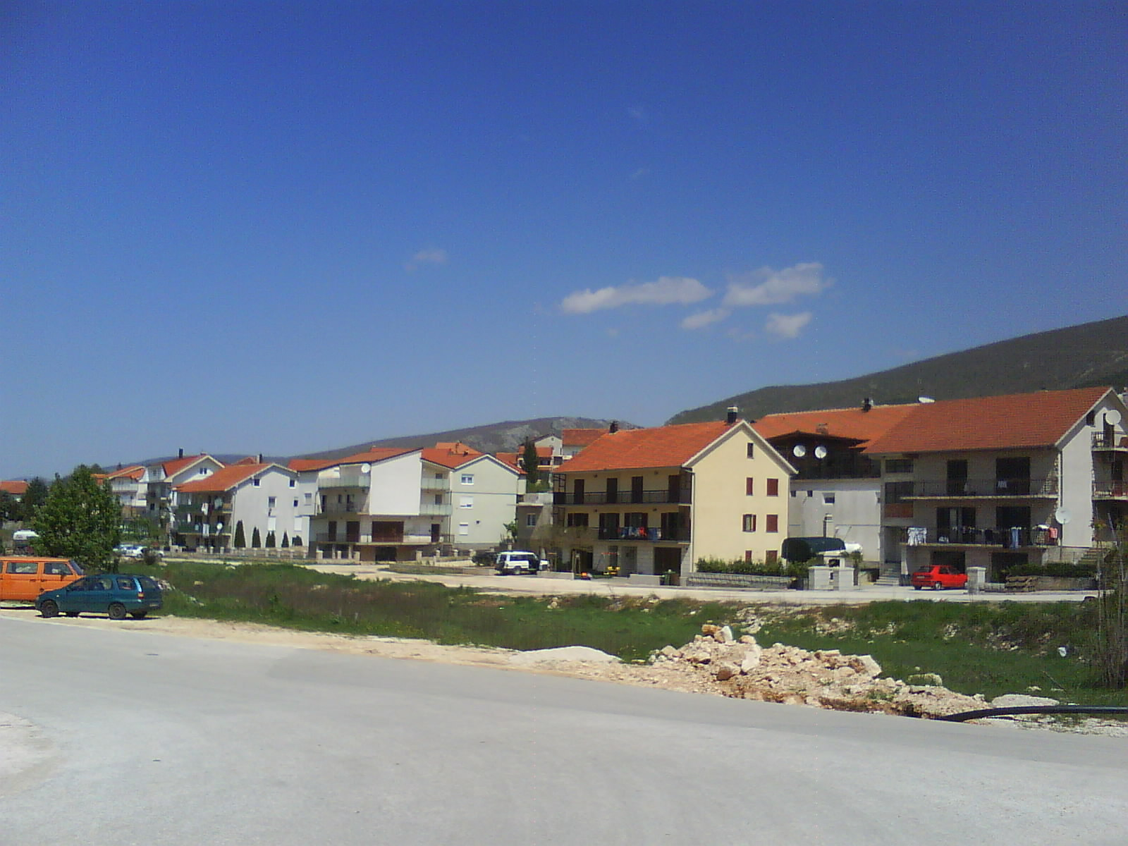 city of Posušje